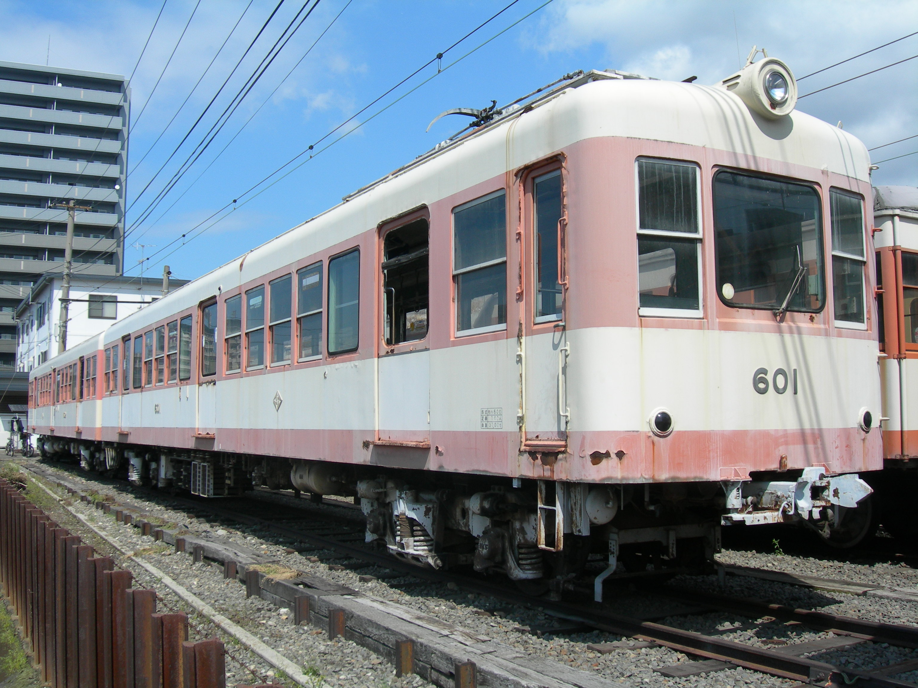 Withdrawn Iyotetsu 600 series EMU set 601